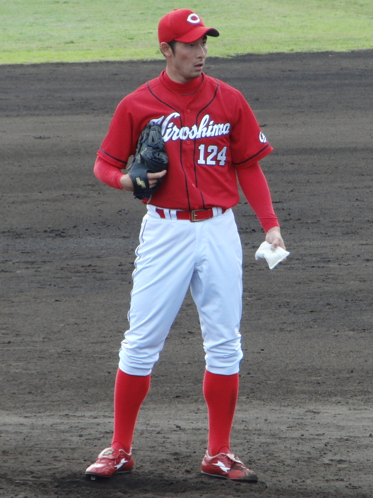 Takaya Kawauchi, pitcher of the Hiroshima Toyo Carp, at Gannosu Baseball Ground.